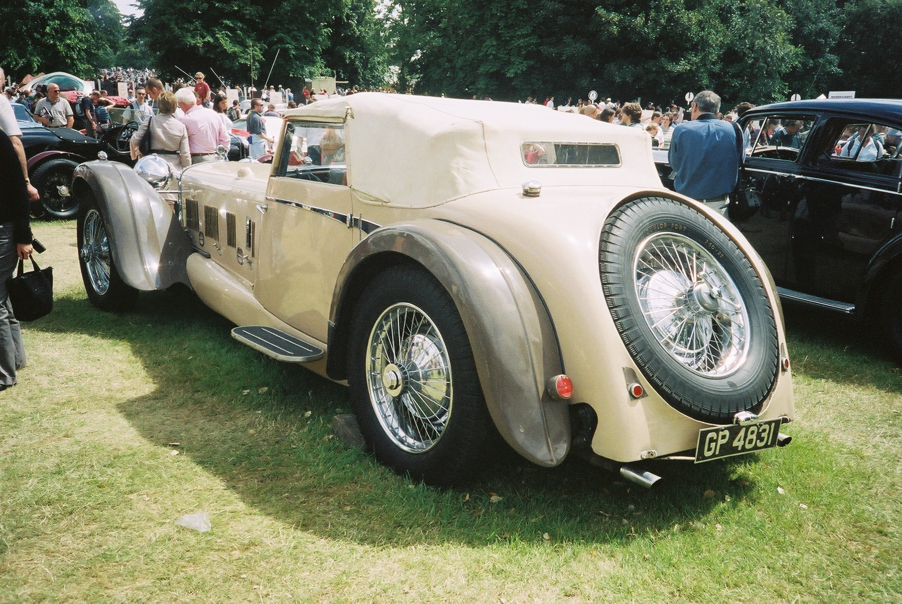 Daimler Double-Six Corsica Coupe